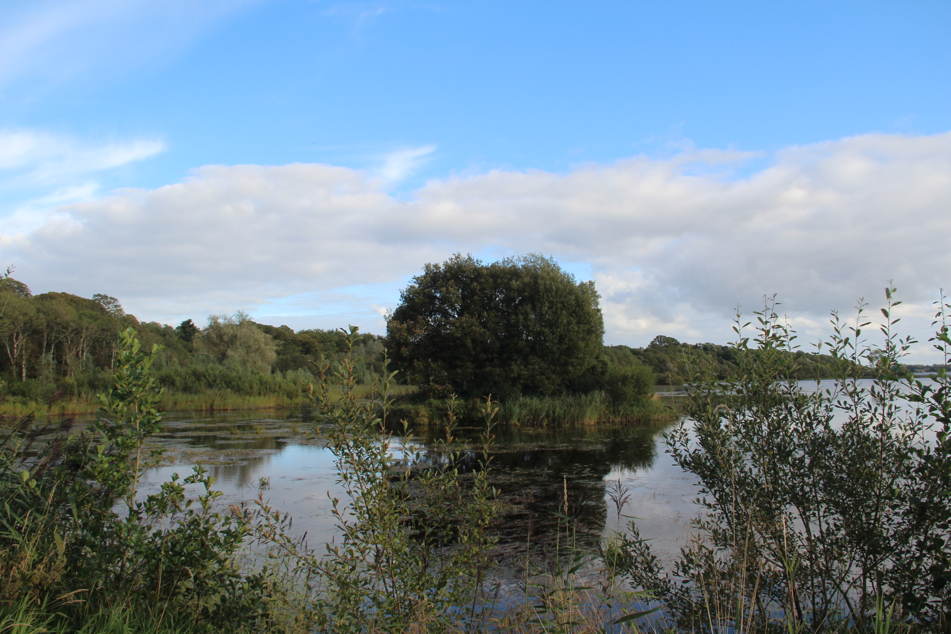 Site of the ancient crannóg